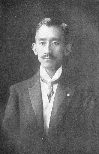 Yoshimitsu Yanagihara